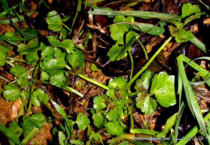 نبات برّي سوري يؤكل